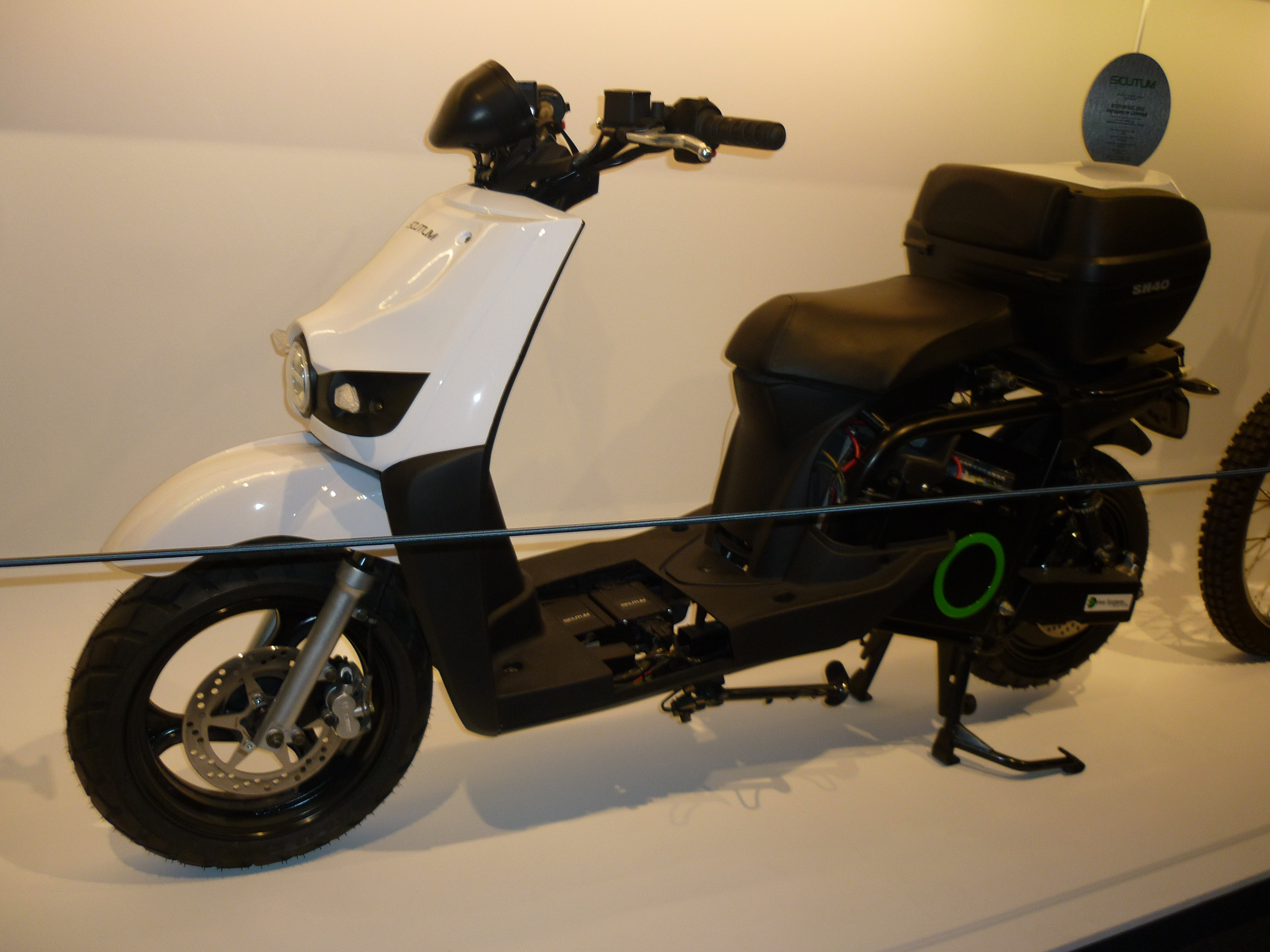 Scutum S02, 2015